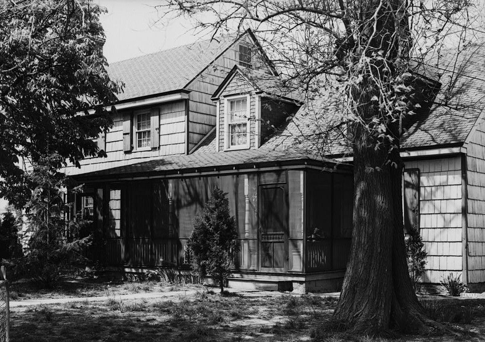 Coleman House, 422 Kings Highway, Lewes (Sussex County, Delaware) cropped This file comes from the Historic American Buildings Survey (HABS), Historic American Engineering Record (HAER) or Historic American Landscapes Survey (HALS). These are programs of the National Park Service established for the purpose of documenting historic places. Records consist of measured drawings, archival photographs, and written reports. When reusing please credit: Library of Congress, Prints & Photographs Division, DEL,3-LEW,6-1 This tag does not indicate the copyright status of the attached work. A normal copyright tag is still required. See Commons:Licensing. This work is in the public domain in the United States because it is a work prepared by an officer or employee of the United States Government as part of that person’s official duties under the terms of Title 17, Chapter 1, Section 105 of the US Code. Note: This only applies to original works of the Federal Government and not to the work of any individual U.S. state, territory, commonwealth, county, municipality, or any other subdivision. This template also does not apply to postage stamp designs published by the United States Postal Service since 1978. (See § 313.6(C)(1) of Compendium of U.S. Copyright Office Practices). It also does not apply to certain US coins; see The US Mint Terms of Use. This file has been identified as being free of known restrictions under copyright law, including all related and neighboring rights. Object location38° 46′ 12″ N, 75° 08′ 31″ W